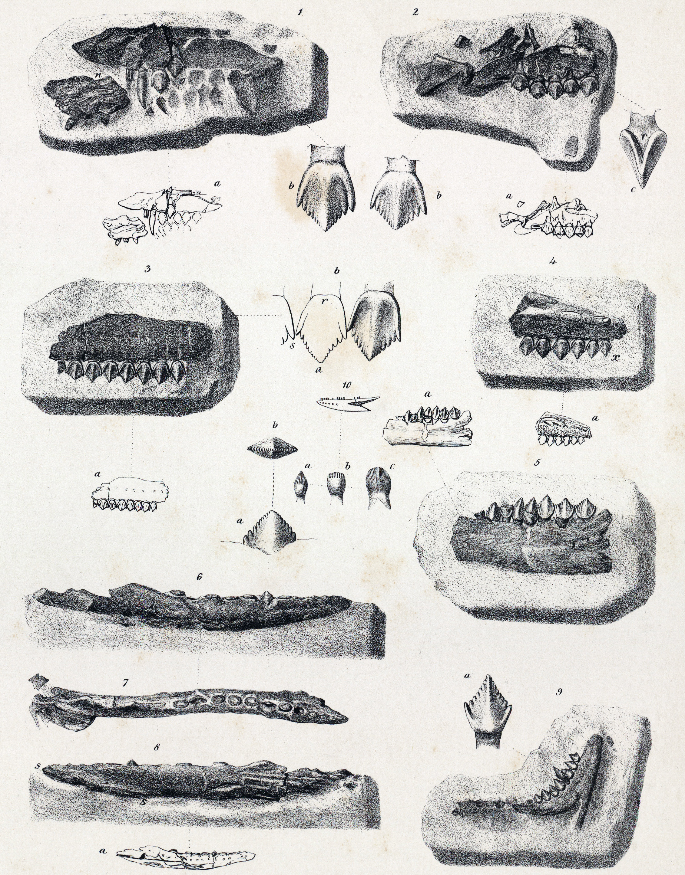 Lithograph showing teeth and jaw fragments referred to Echinodon, found in Dorset by Samuel Beckles. Lacertians.—Echinodon Becclesii. Fig. 1. Fore part of upper jaw and teeth; a, nat. size; b, tooth, magnified. Fig. 2. Hind part of upper jaw and teeth; a, nat. size; b, tooth, magnified. Fig. 3. Part of upper jaw and teeth, outer side; a, nat. size; b, teeth, magnified. Fig. 4. Ib., inner side; a, nat. size. Fig. 5. Part of lower jaw; a, nat. size; a, b, c, anterior teeth, magnified. Fig. 6. Part of lower jaw, outer side; a, nat. size. Fig. 7. Ib., dentigerous border ; a, b, crown of a rising tooth, magnified. Fig. 8. Ib., inner side. Fig. 9. Fore part of lower jaw ; a, tooth; both figures magnified. From the Purbeck Oolite, Dorsetshire.